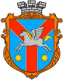 Coat of Arms of Zhmerynka (Vinnitsa Oblast Ukraine)